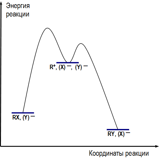 Sn1 profile